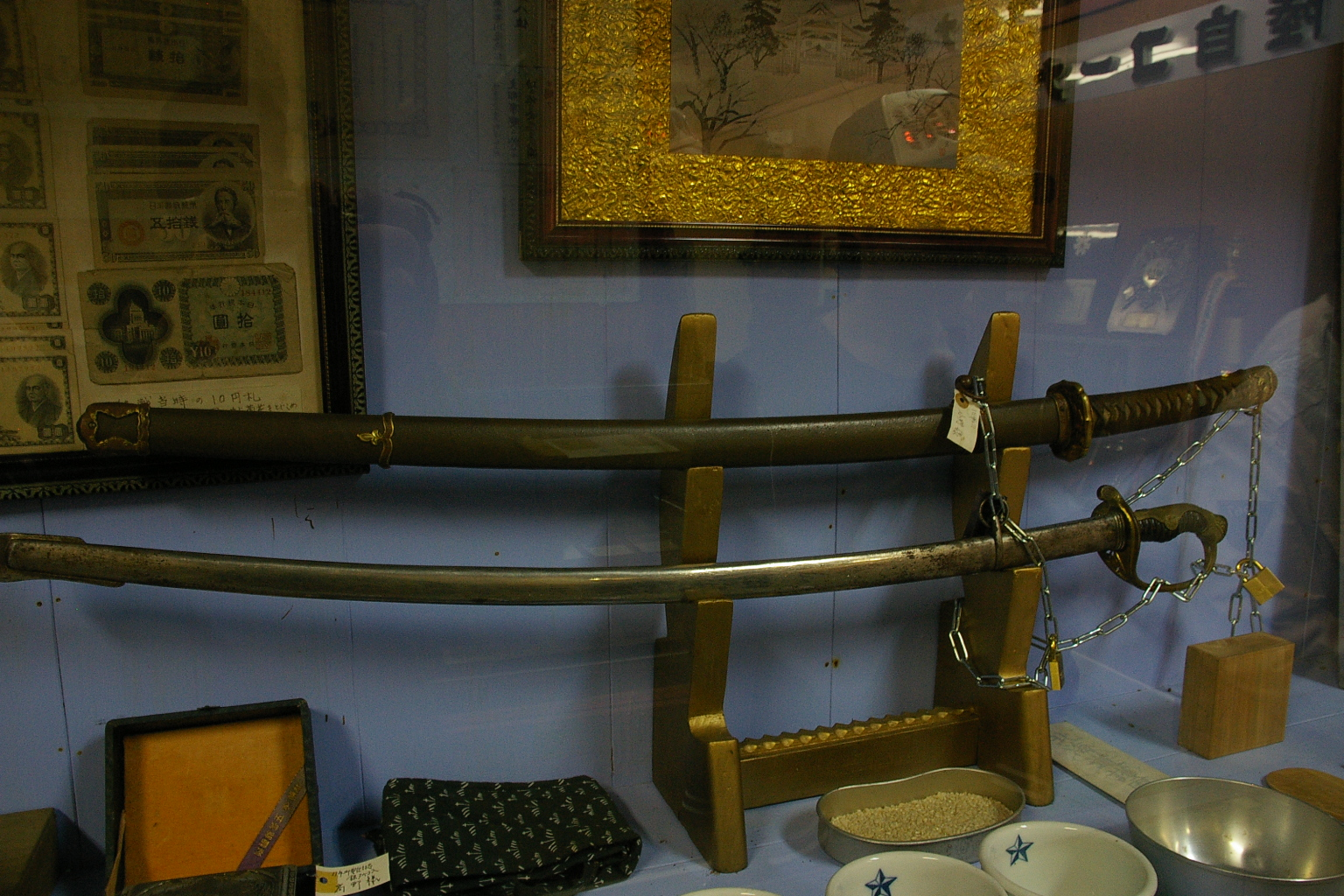 Imperial Japanese Army Gunto & Saber, resting on a horizontal katana kake.